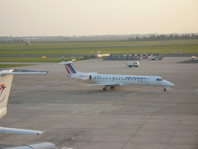 An Embraer ERJ 145 of Air France at Bremen's airport